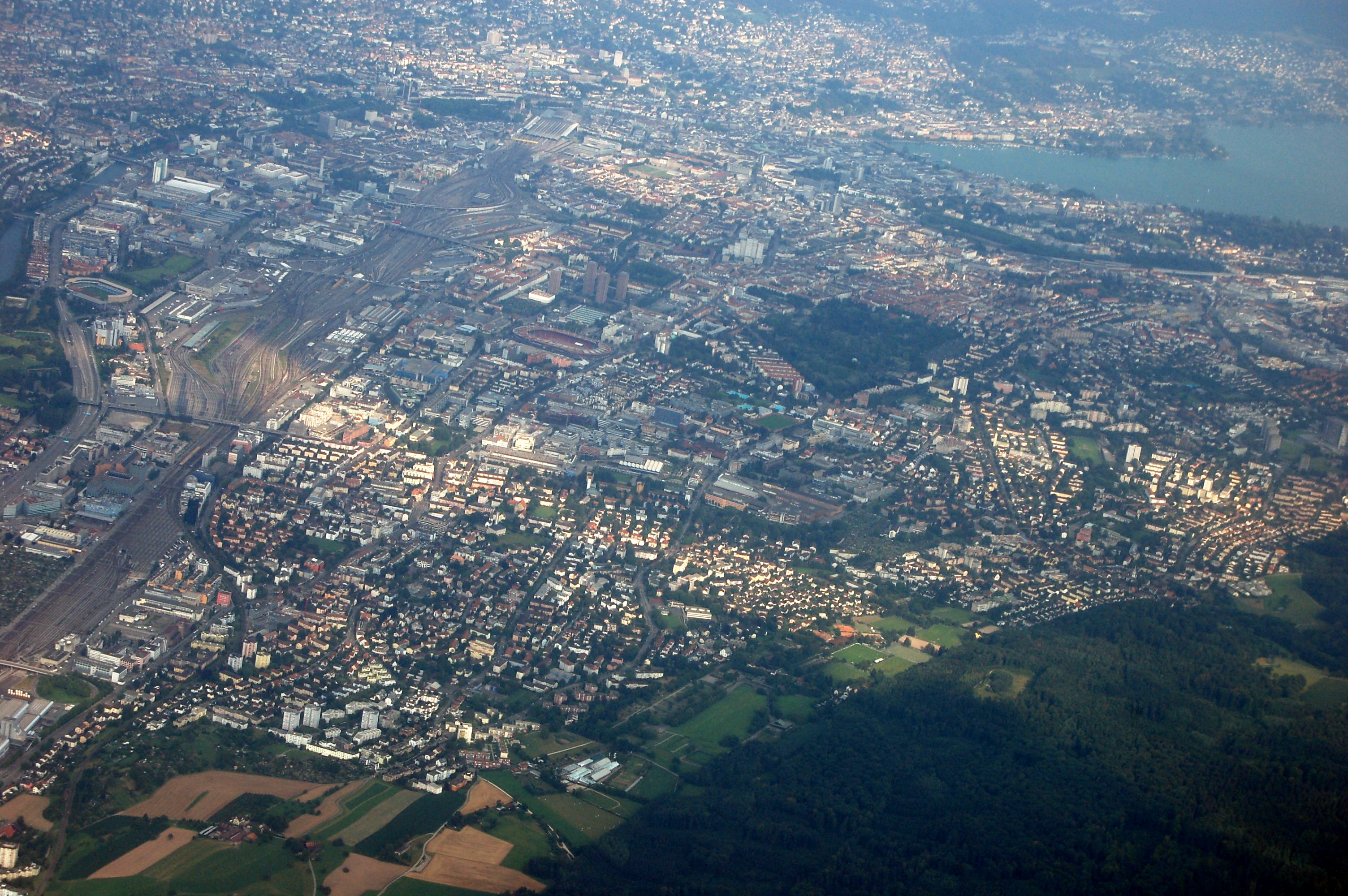 Western and central Zürich, aerial view.